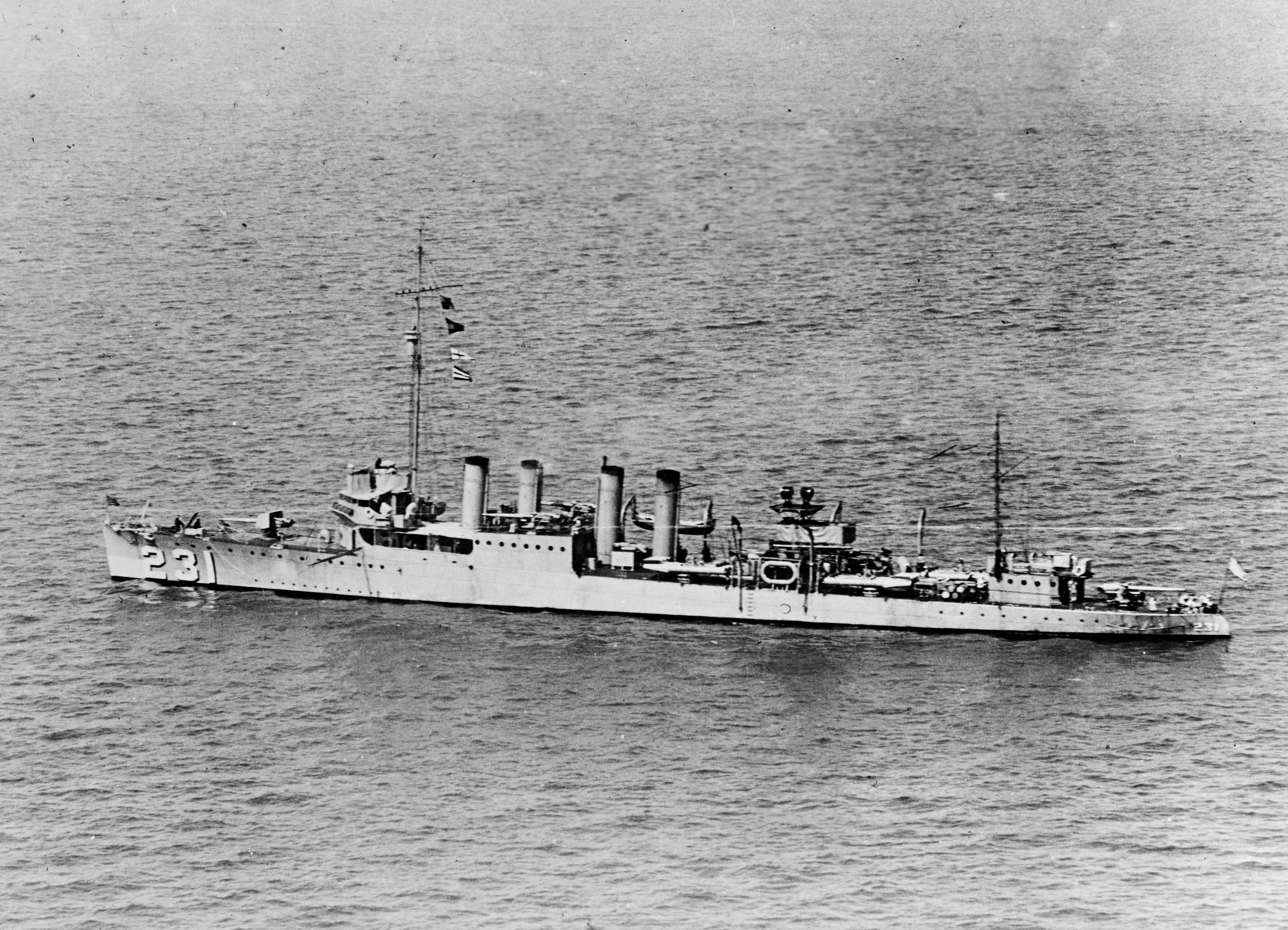 The U.S. Navy destroyer USS Hatfield (DD-231), circa in the 1930s.